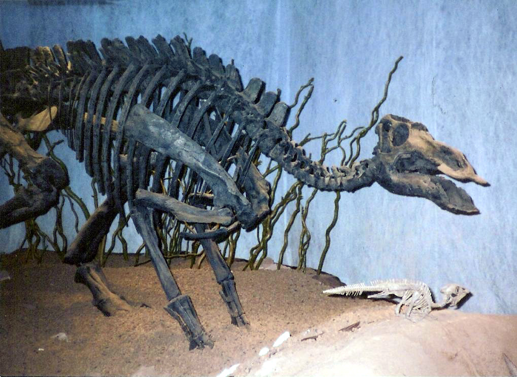 Mounted Maiasaura skeleton. Experimentarium, Copenhagen.